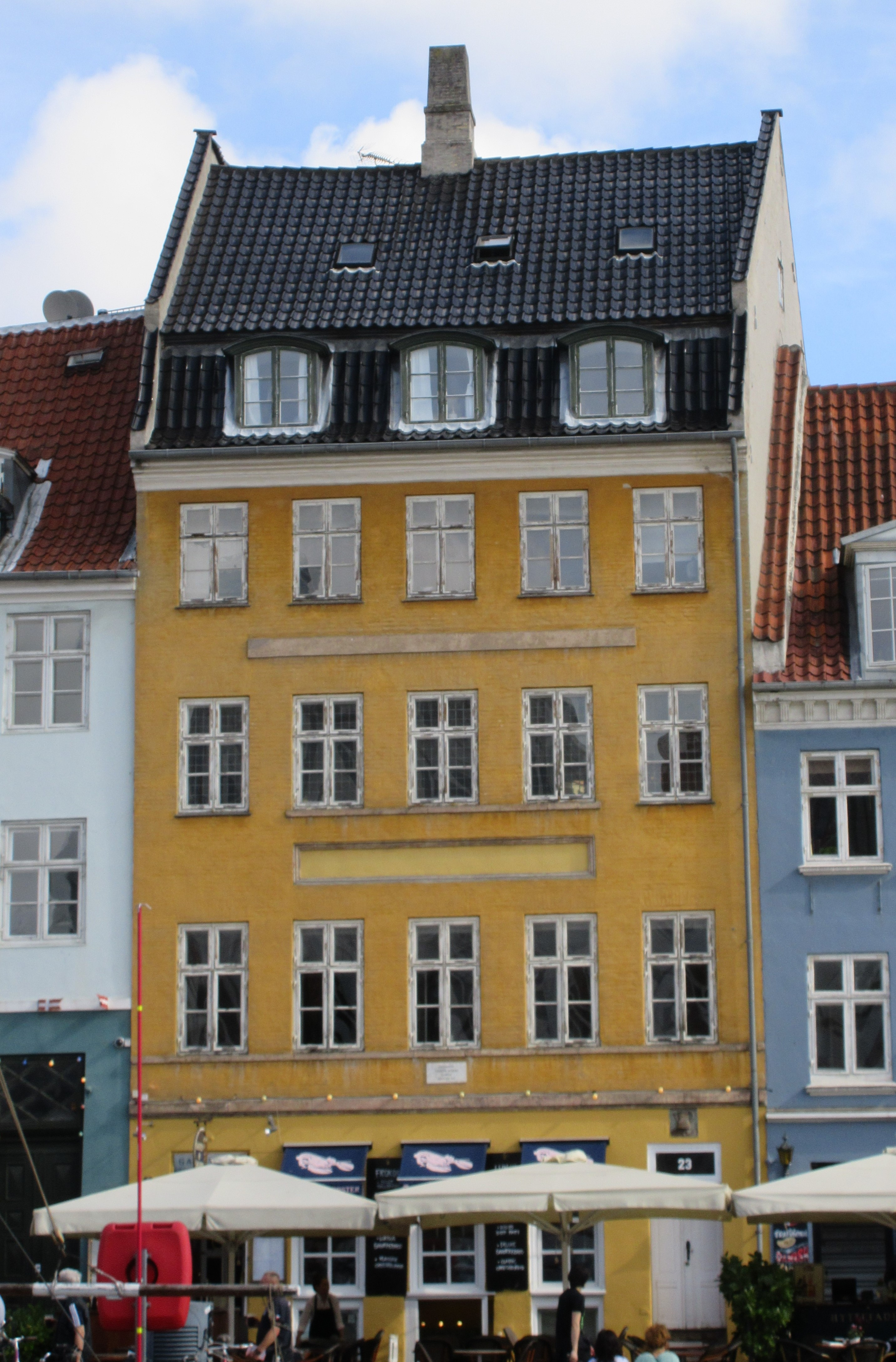 Nyhavn 23 in Copenhagen, Denmark